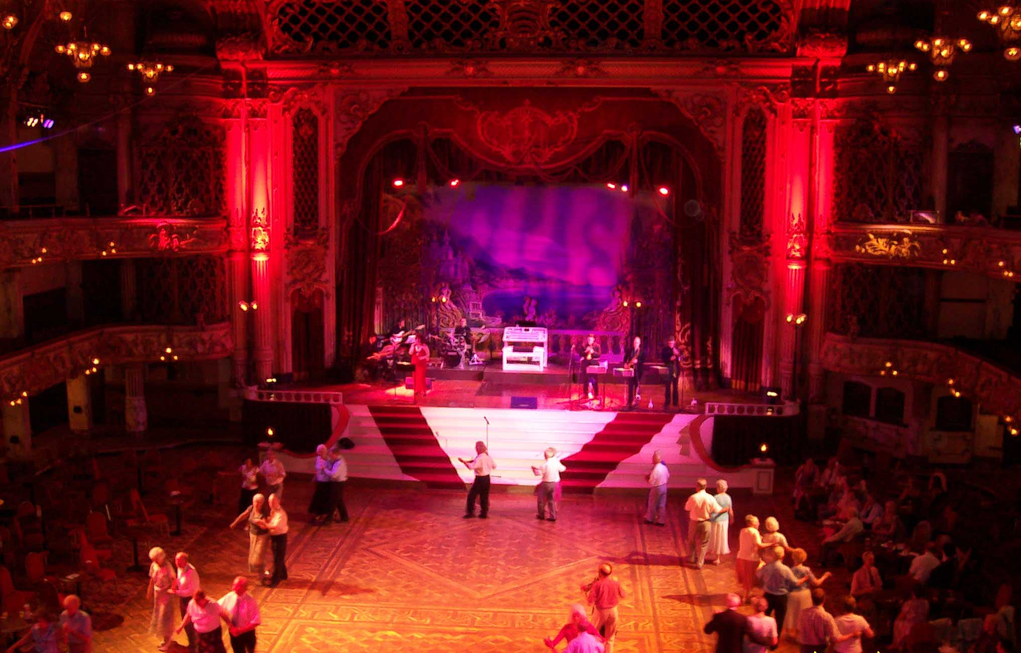 Blackpool Tower (main hall, jazz session), August 2005